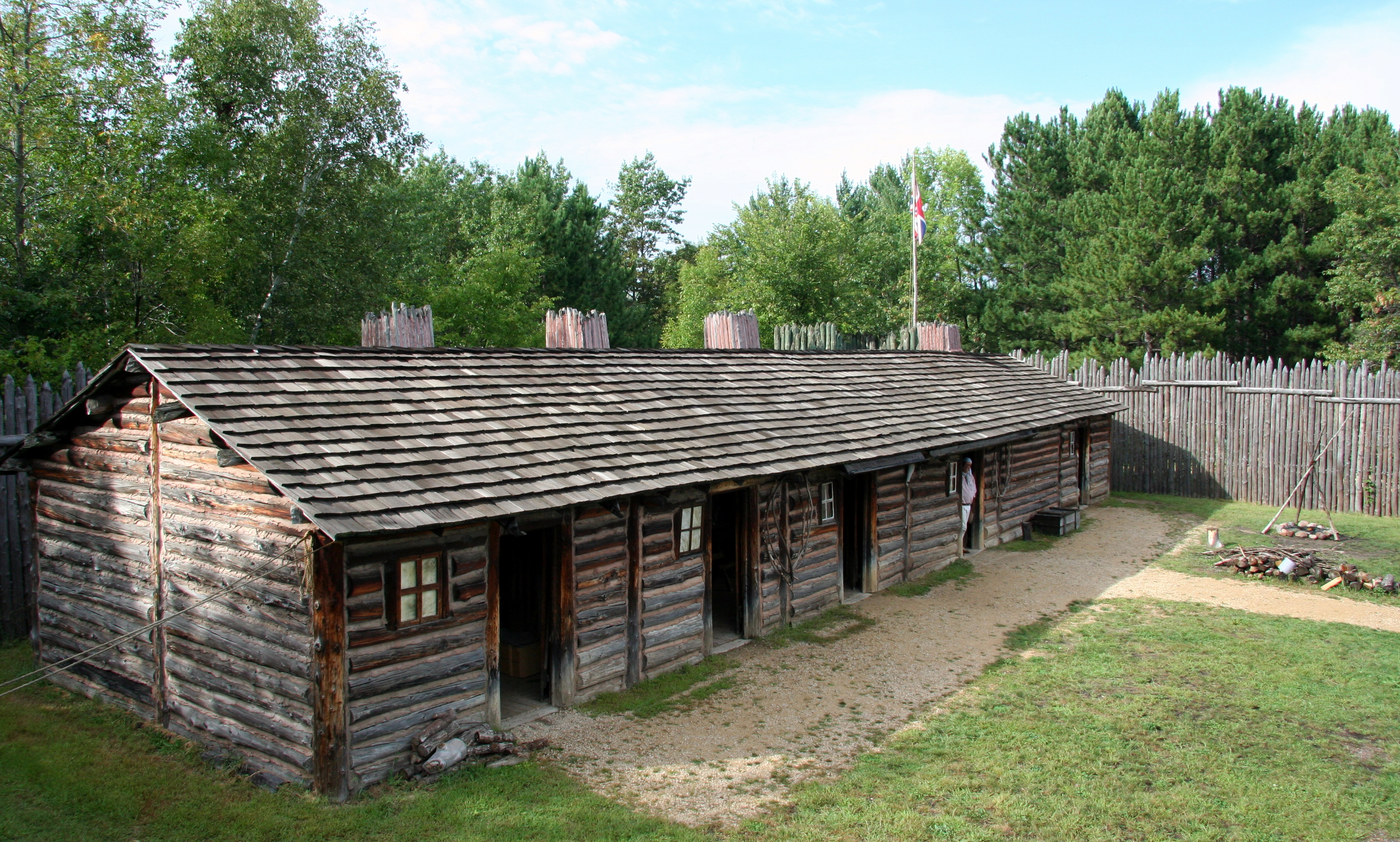 A reconstructed fur trade post operated by the Minnesota Historical Society near Pine City, at the site of the original built by the North West Company on the Snake River in 1804